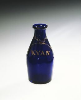 Cruet bottle, 1780-1800 V&A Museum no. 118-1907 Techniques - Blue glass, gilt Artist/designer - Isaac Jacobs (active 1790-1835) Place - Bristol, England Dimensions - Height 11.8 cm, Width 4.4 cm (maximum)